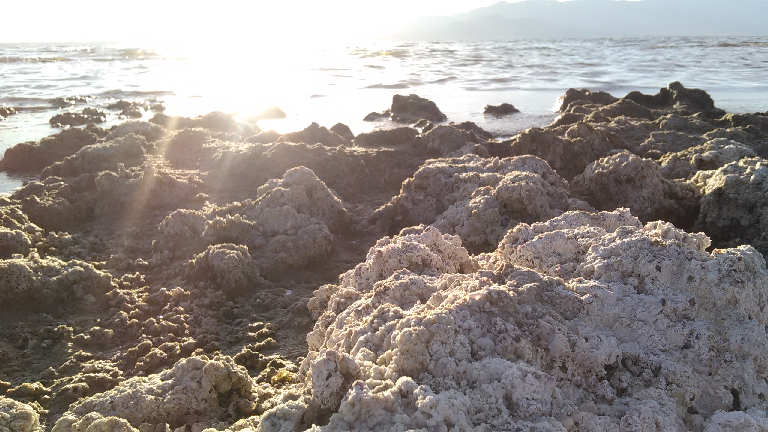 Large amounts of salt deposits along the eastern shore of the Salton Sea